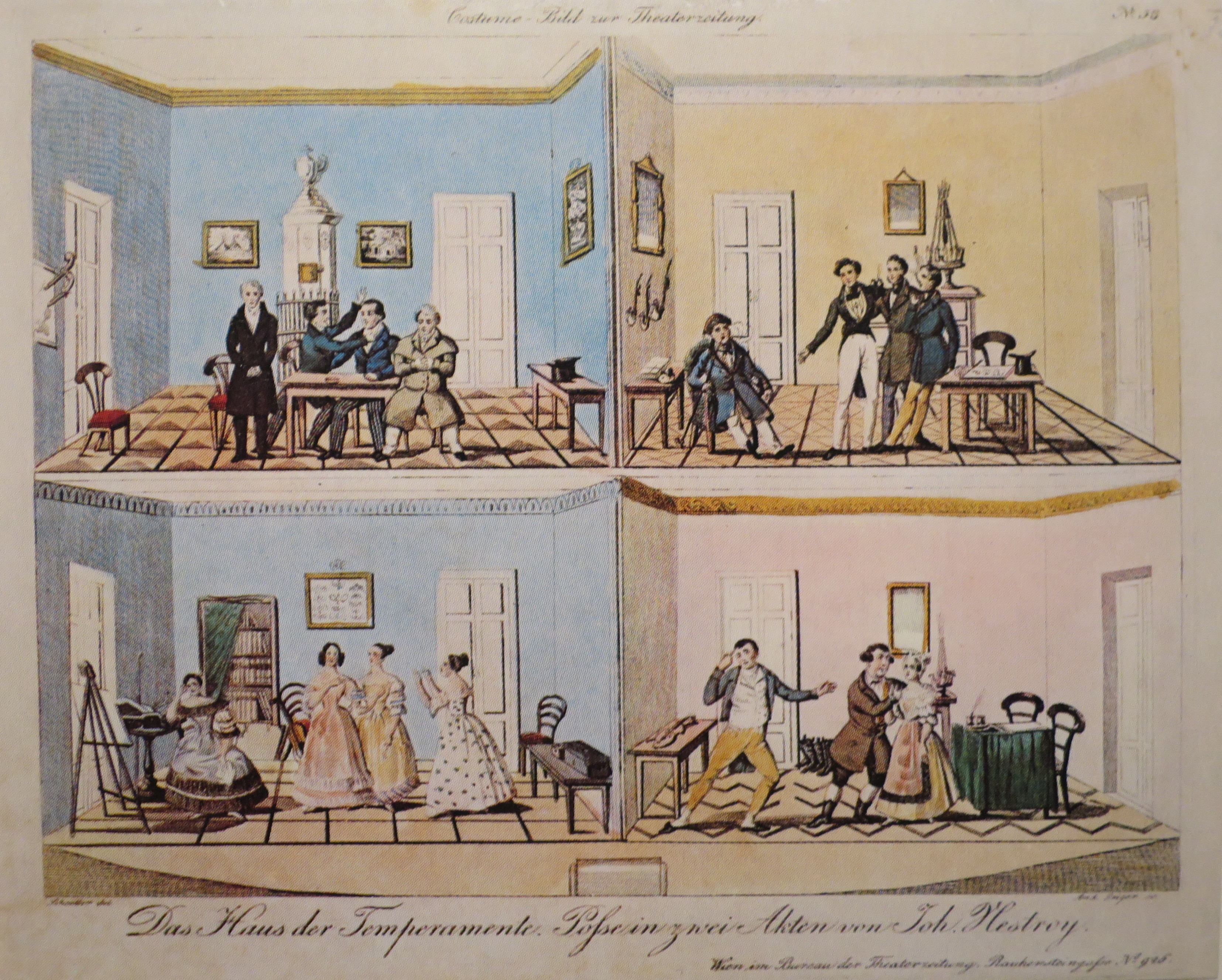 Stage Set four Johann Nestroy's "House of the four temperaments" (1937) with a four-part split stage.